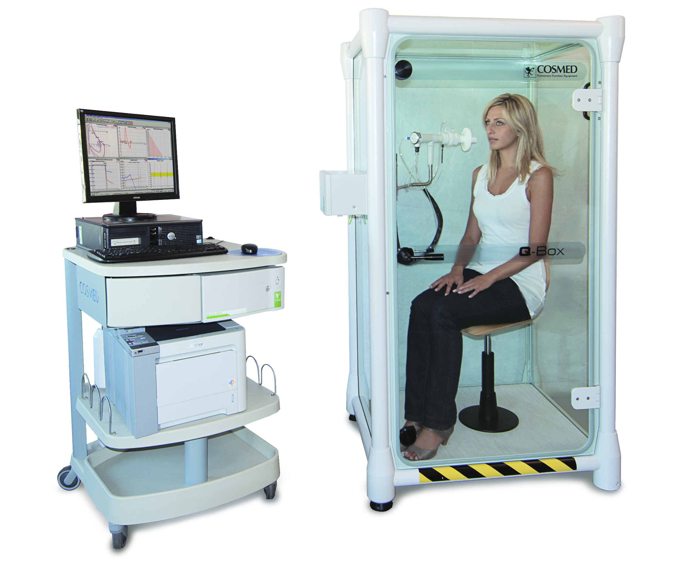 Lung Volumes Measurement by Body Plethysmography technology from COSMED (